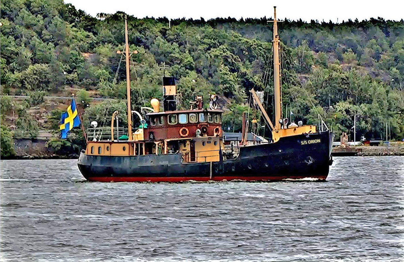 S/S Orion